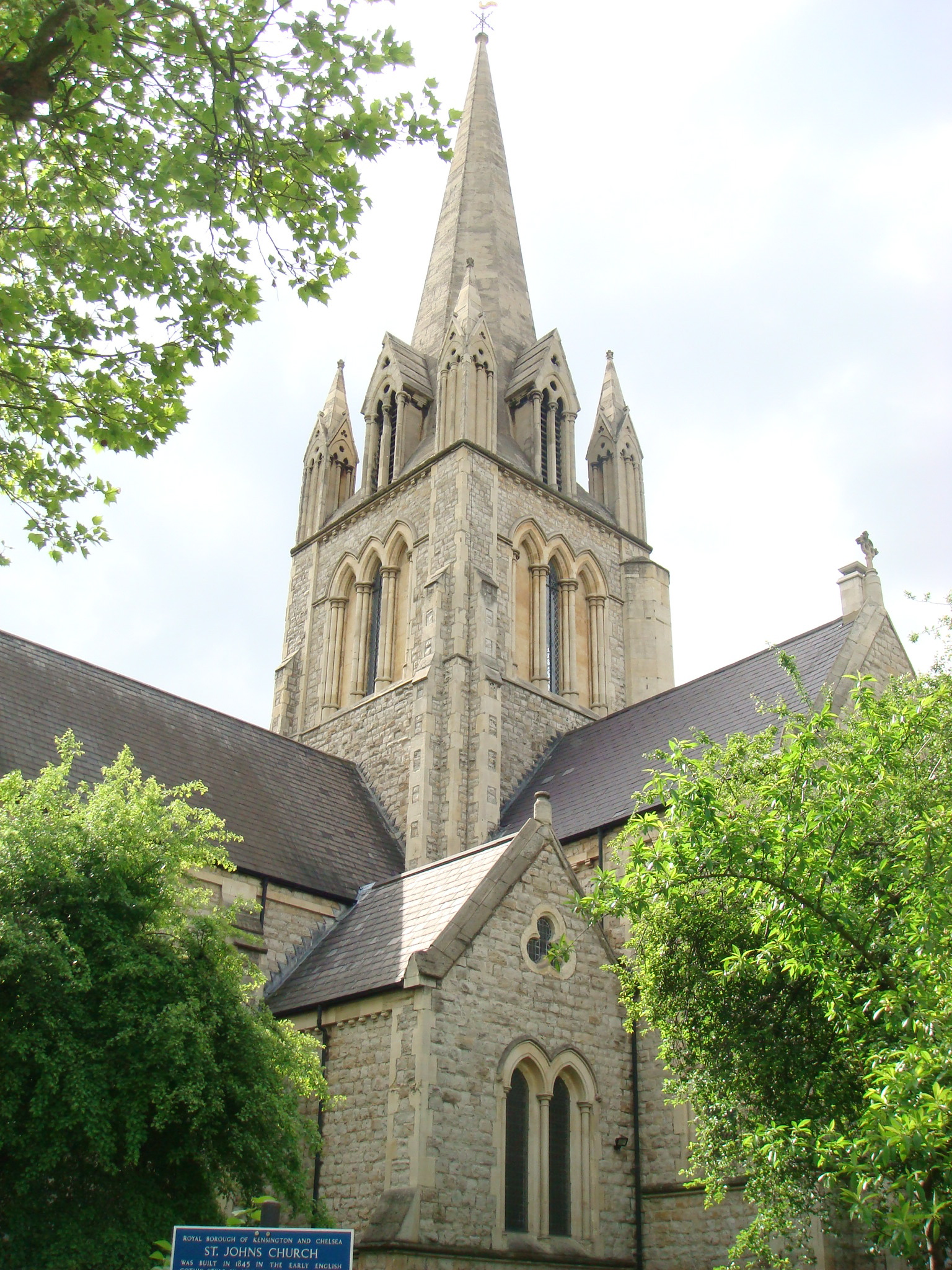 The central tower and spire of St John's parish church, Ladbroke Grove, Notting Hill, London W11, seen from the southeast